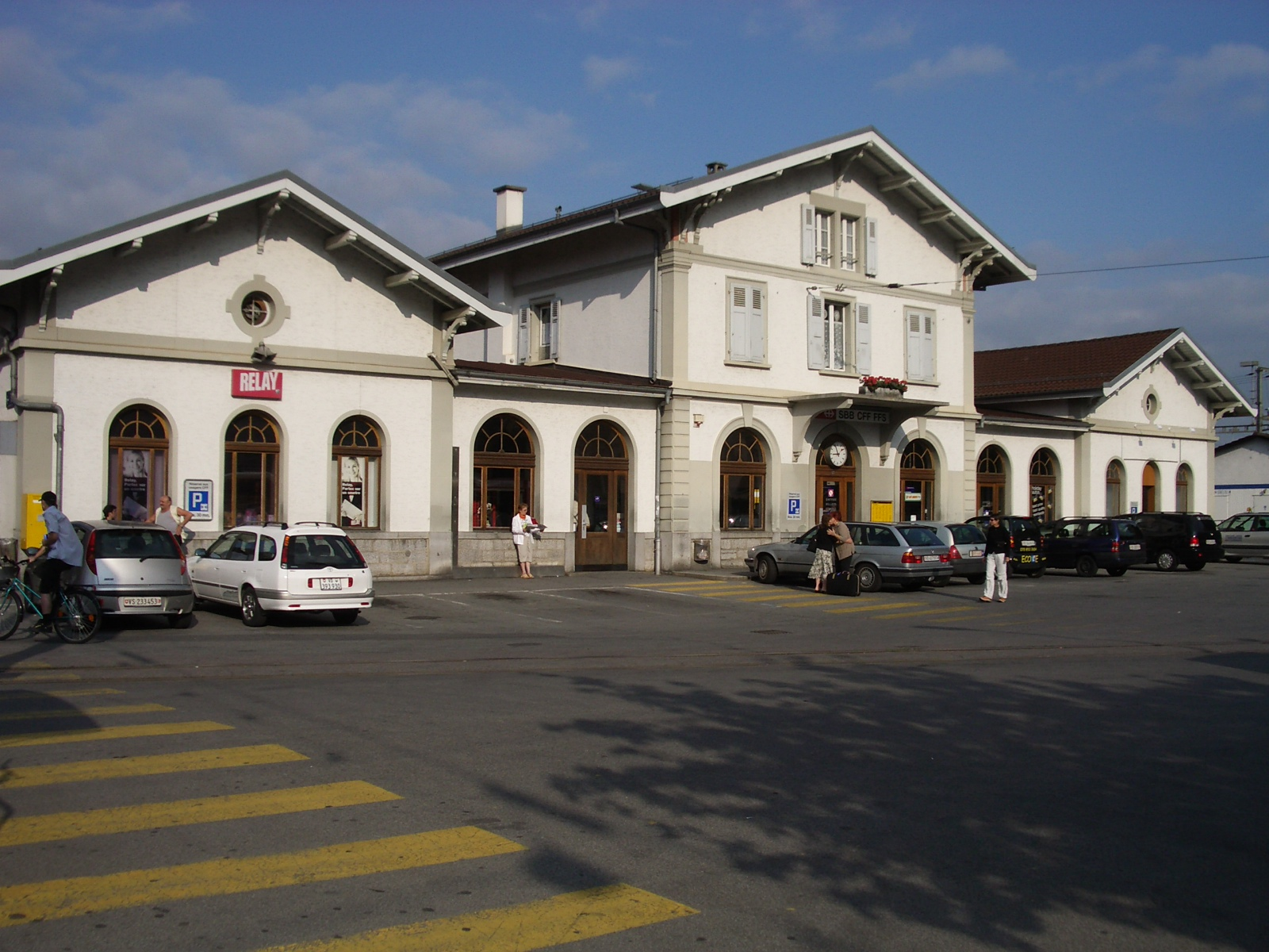 Railway station Aigle VD, Switzerland self-made, August 2006